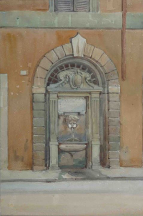 Street fountain of the Ricciotto in Borgo Nuovo, Rome, lost after 1936